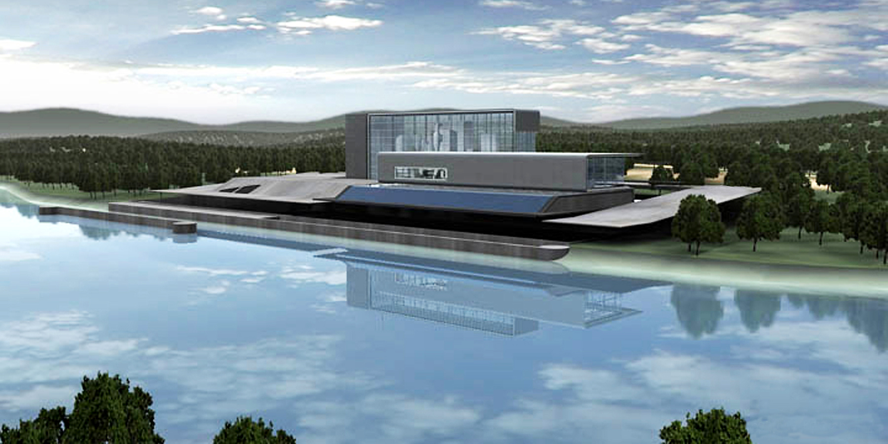 Artist concept of FutureGen Power Plant of the Future